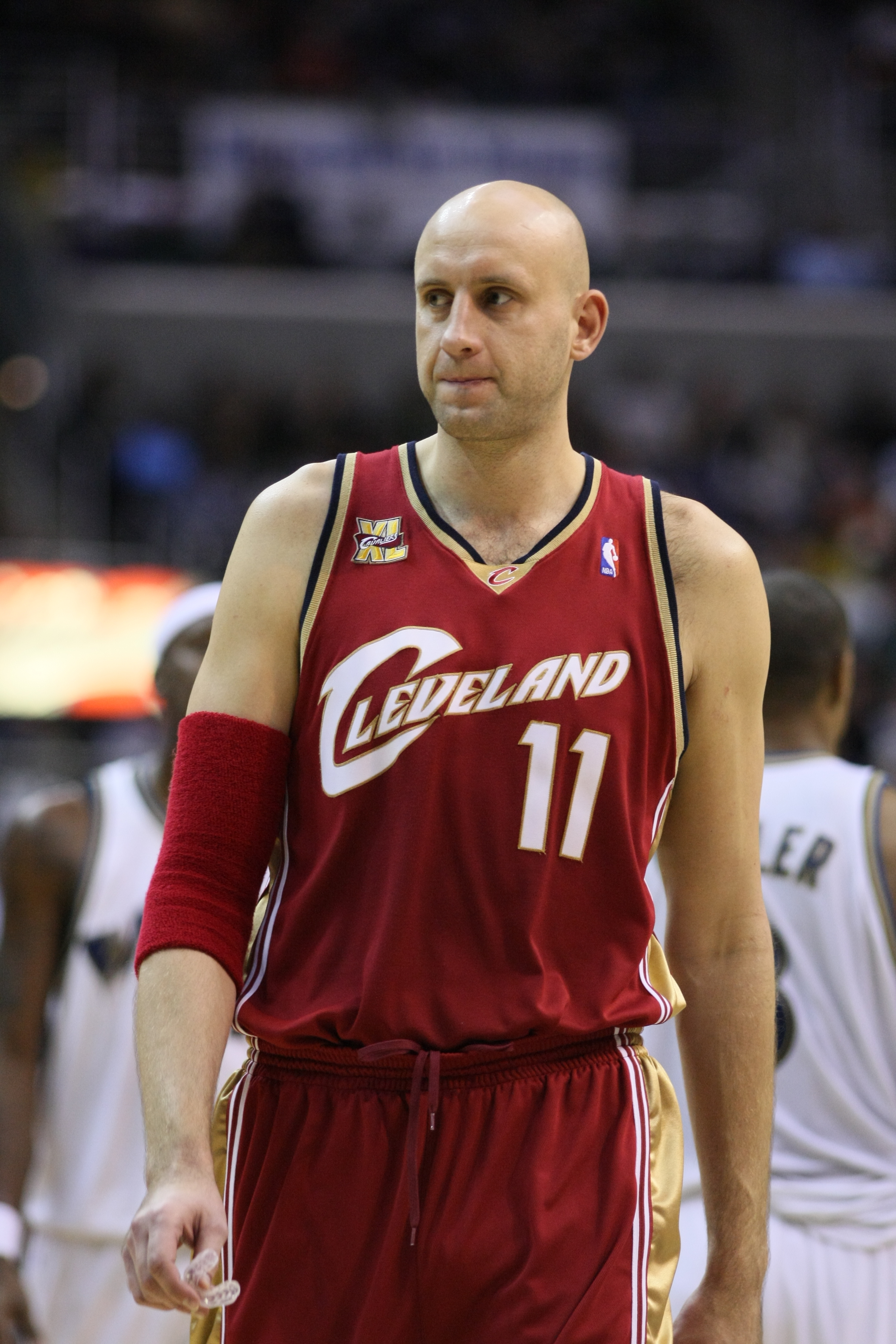 Žydrūnas Ilgauskas as a member of Cleveland Cavaliers.